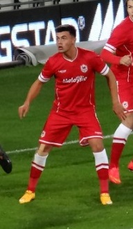 Footballer Macauley Southam-Hales playing for the Cardiff City development team in November 2014.